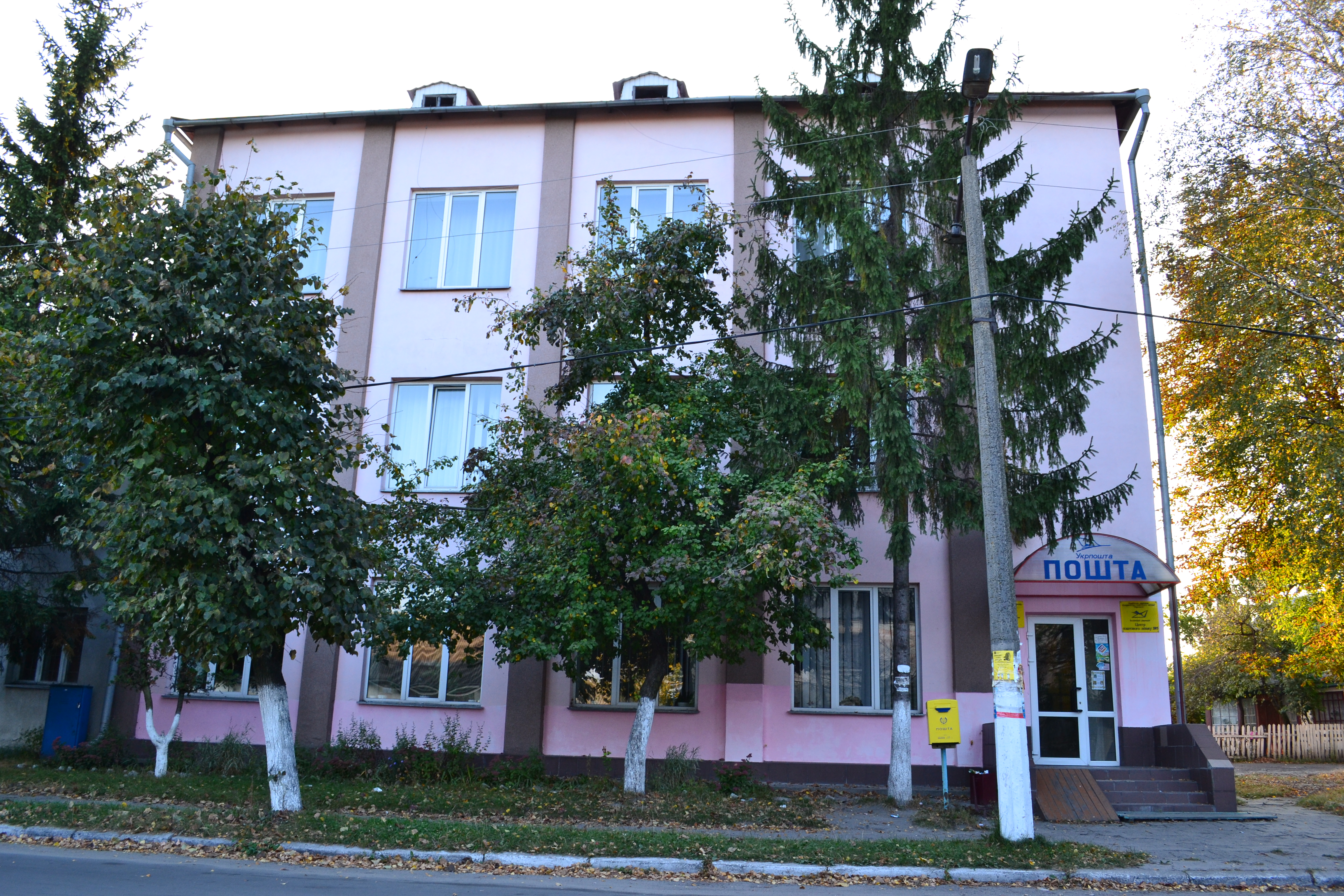 Post Office in Lyuboml